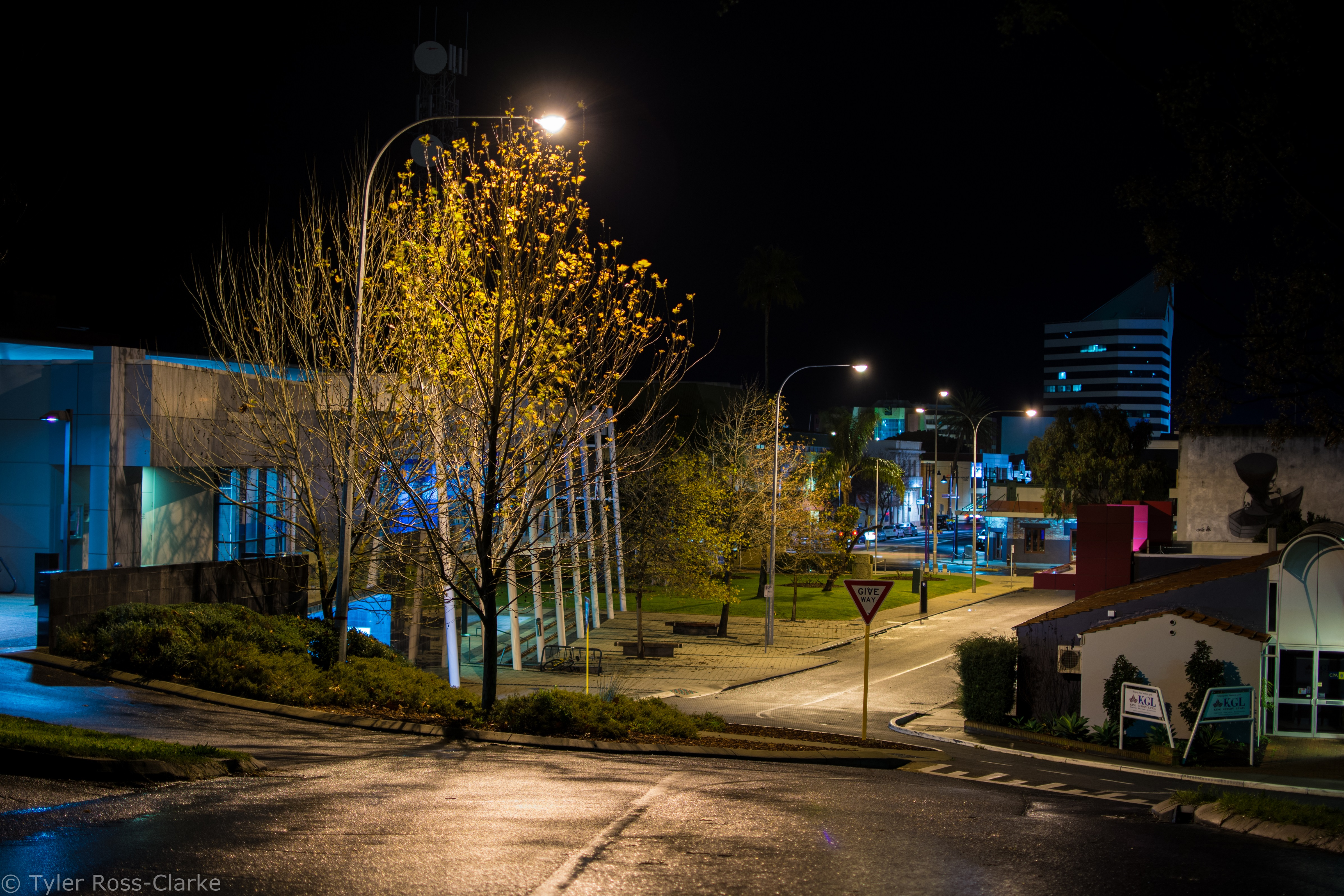 A nightscape of Bunbury Regional Library (Left) looking toward Victoria St. Bunbury Tower is visible in the background.